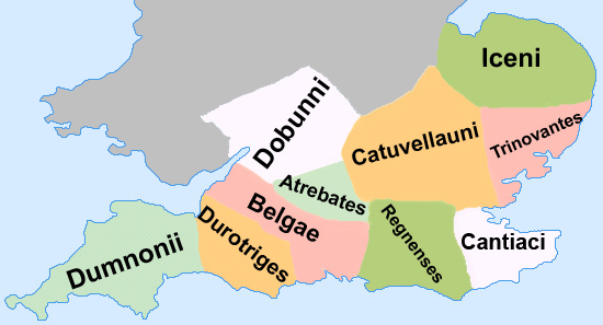 Image depicting the Celts of South England, pre-Roman Britain times. I created this myself, under the guidence (to find location of them) of